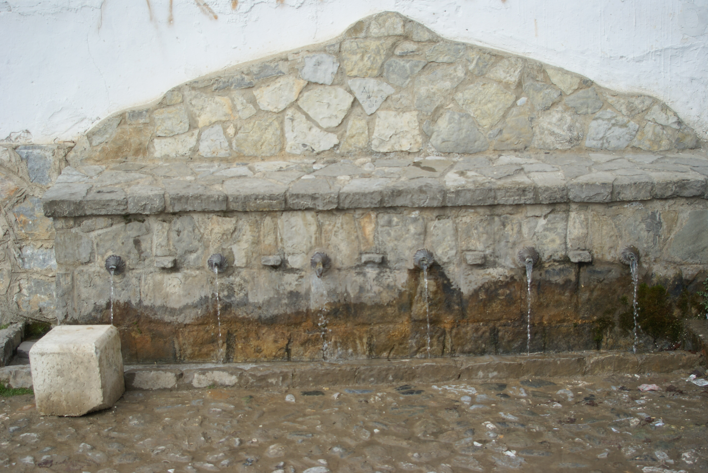 Krojet Topokli